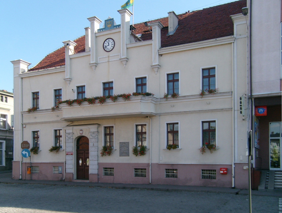 The town hall in Koronowo, Poland